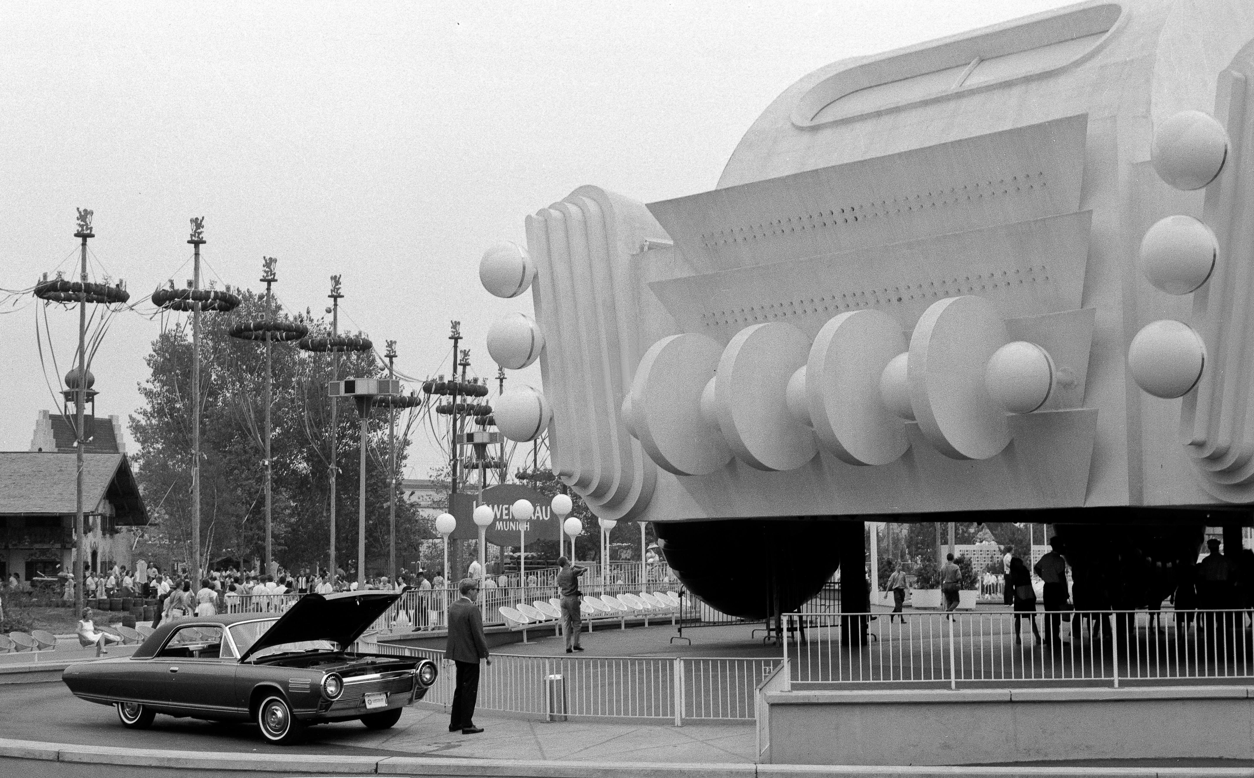 Chrysler Turbine Car at the Chrysler pavilion at the 1964-65 New York World's Fair.